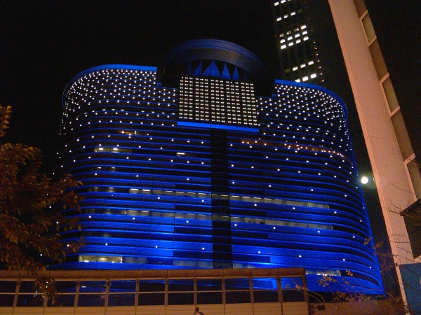 AMLUX Showroom of Toyota